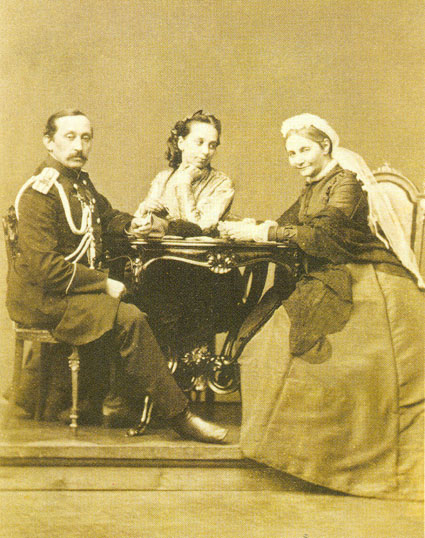 Counter admiral Nikolay Birilev with his wife.